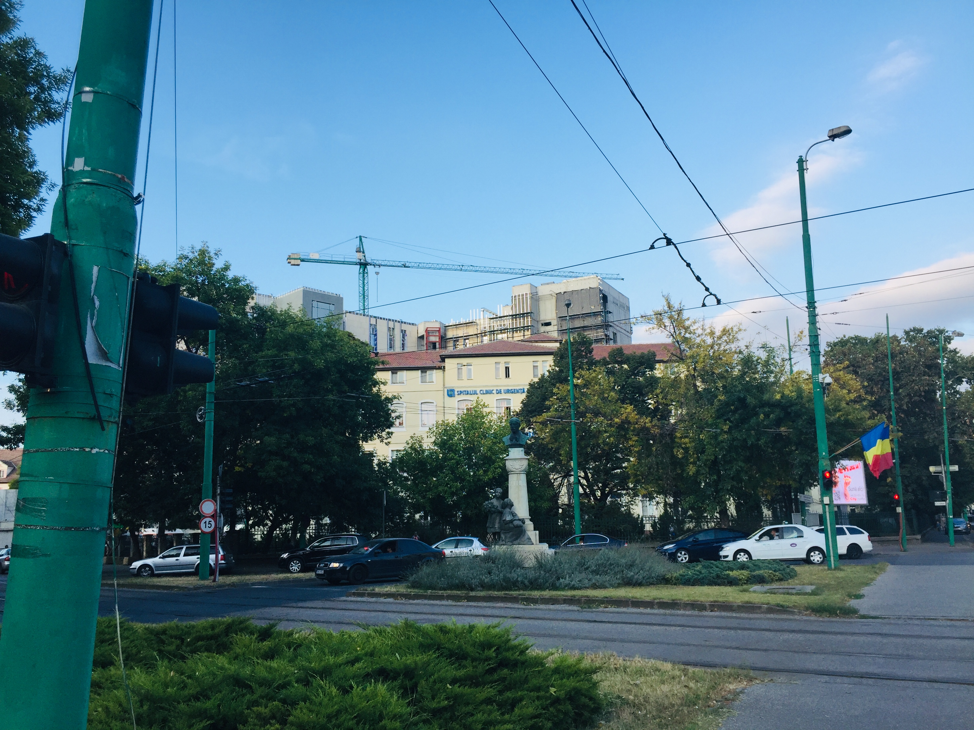 Louis Turcanu Children Hospital, Timisoara